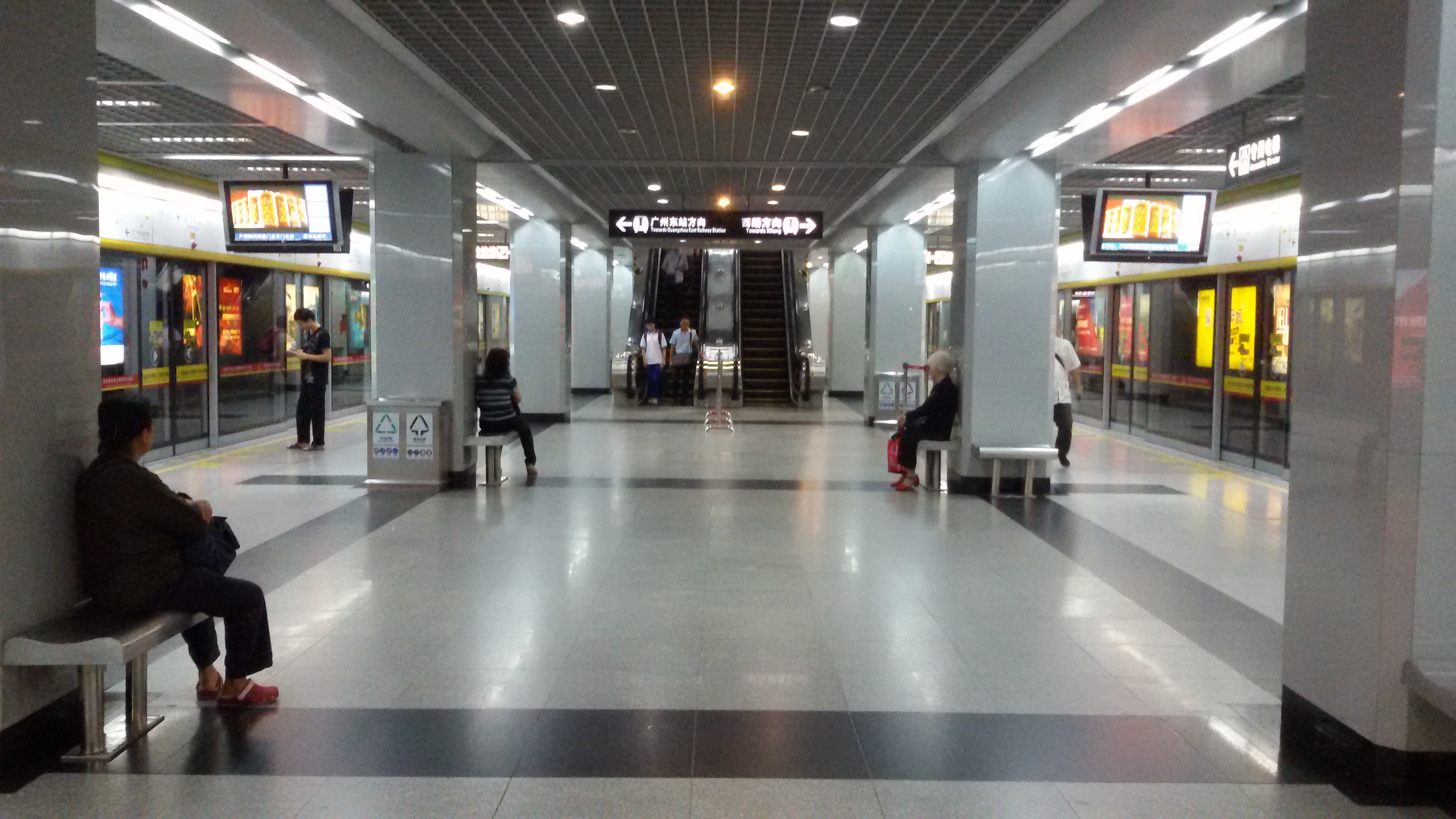 Station Platform for Ximenkou Station in Guangzhou Metro.